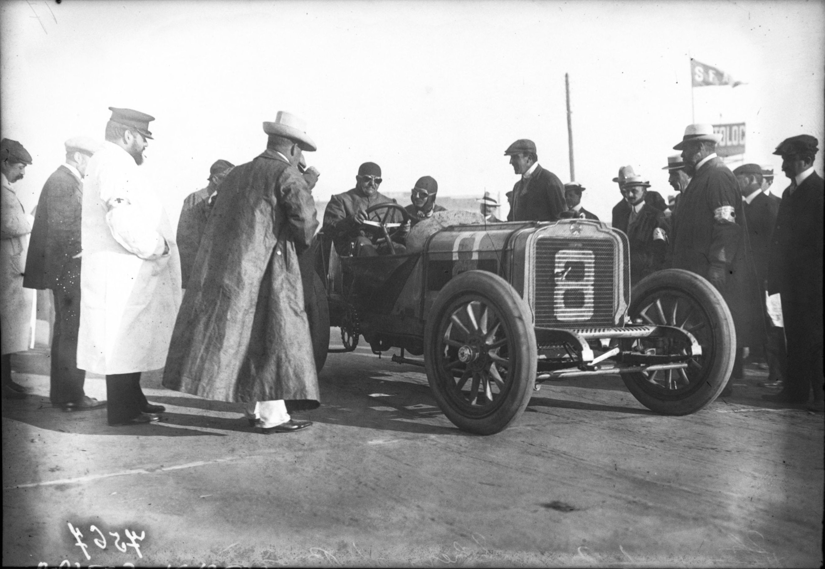 Léon Théry in his Brasier at the 1908 French Grand Prix at Dieppe.